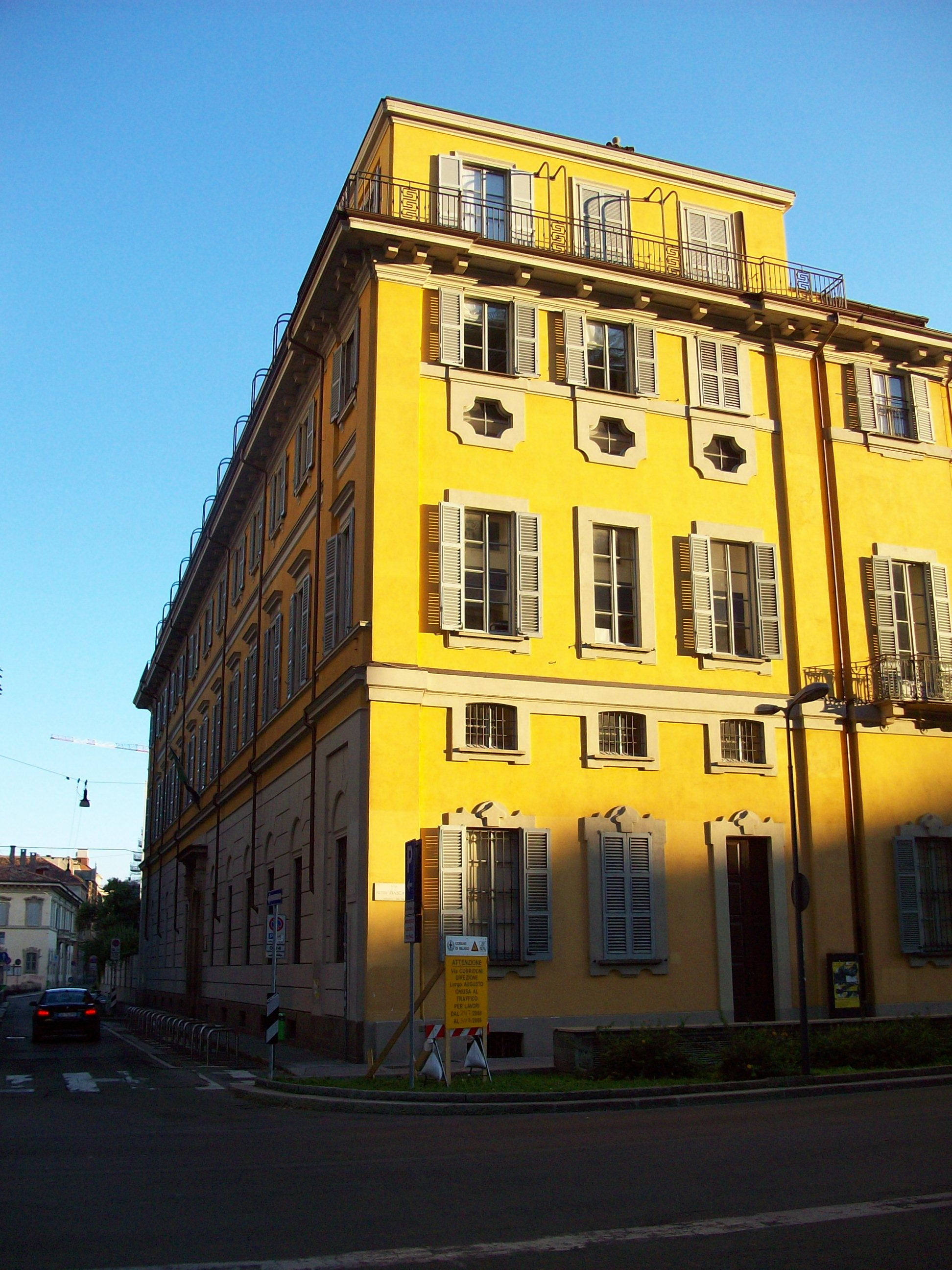 University of Milan, Faculty of Political Science, via Conservatorio 7 (Milan)